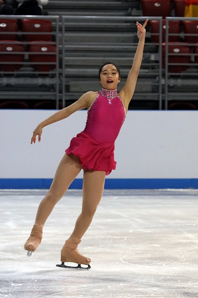 Photos – Junior World Championships 2018 – Ladies (Mako YAMASHITA JPN – Bronze Medal)